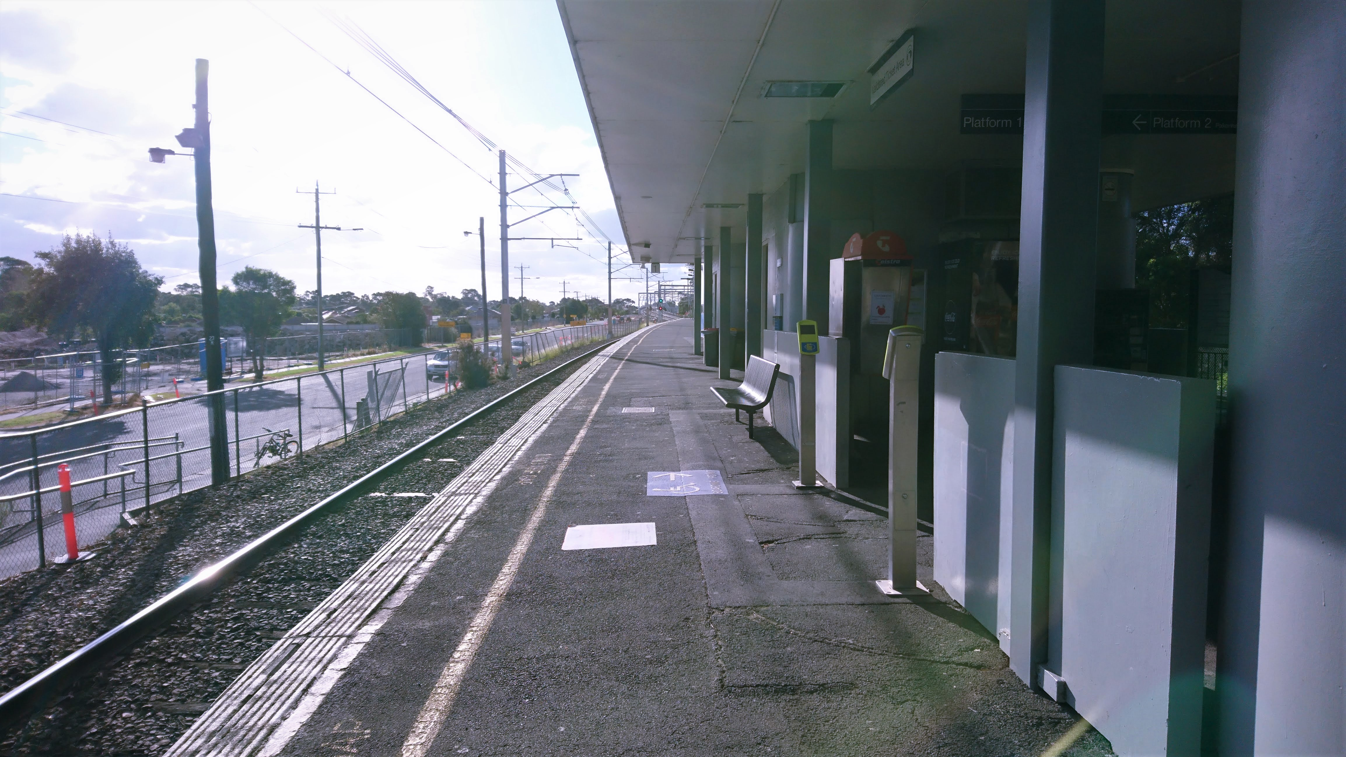 An image of Yarraman Station from the platform #1 in 2018